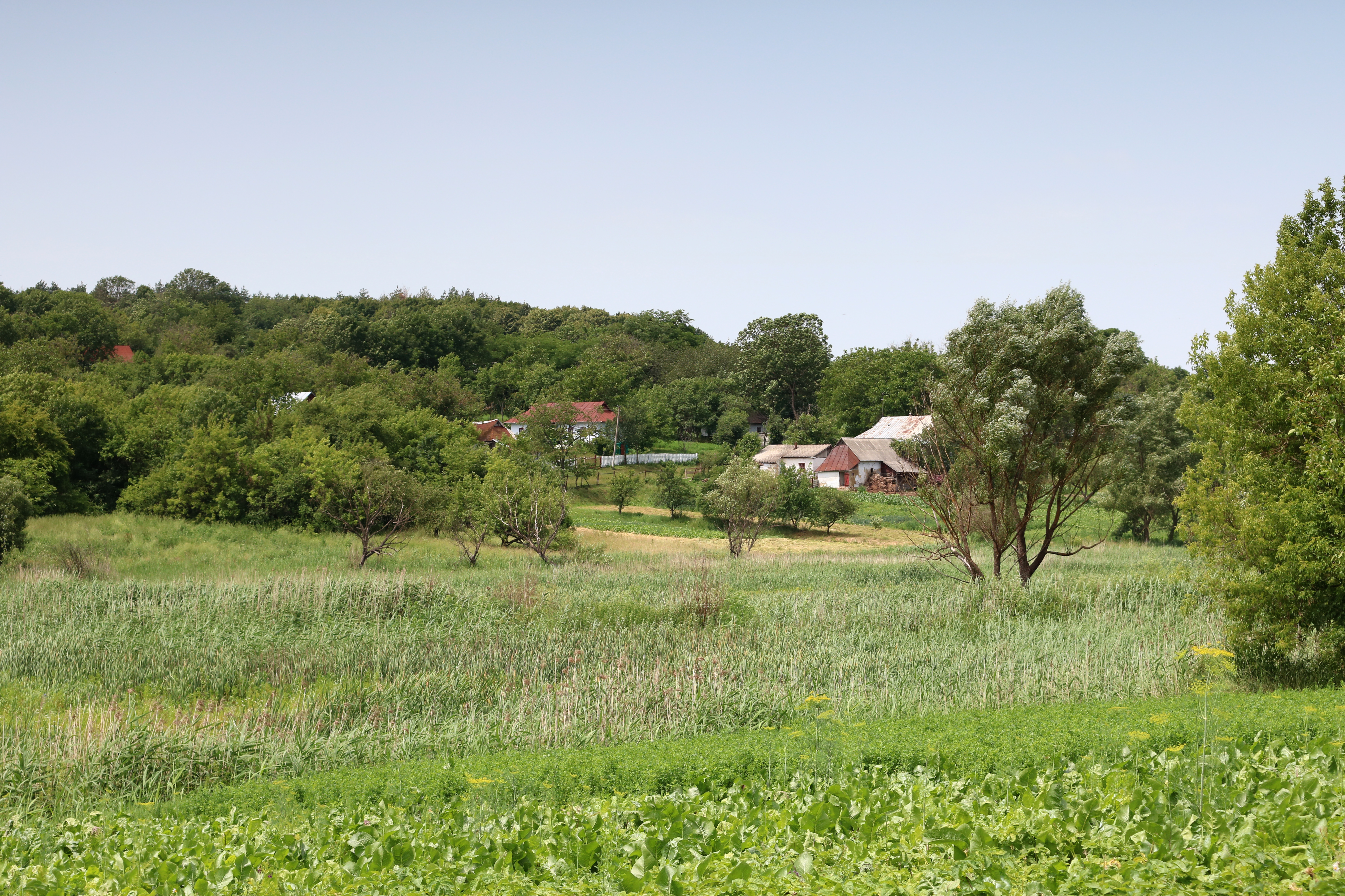 Village of Levkivtsi in the Tulchin district of Vinnytsia oblast.